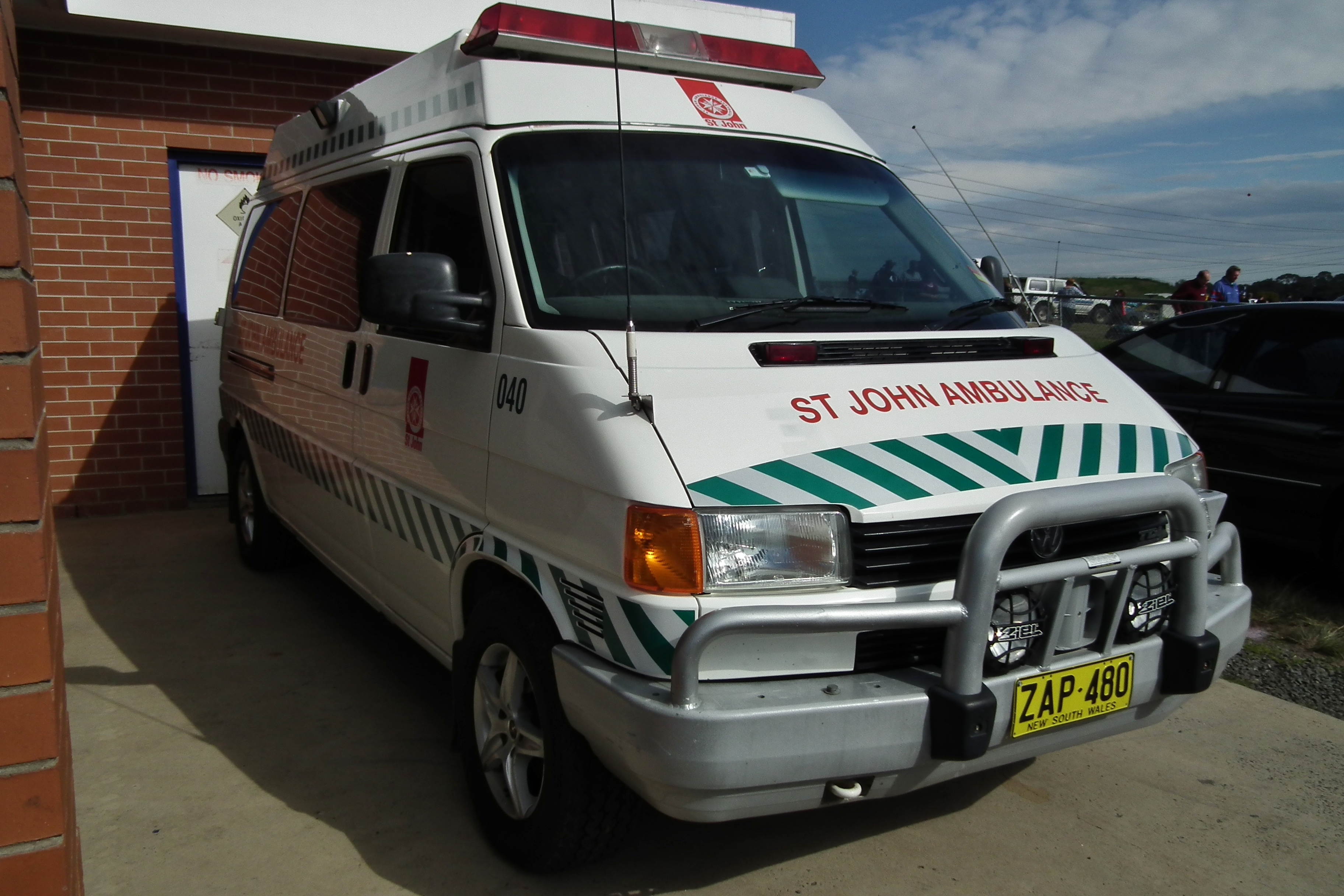 2004 Volkswagen T4 Transporter ambulance. Operated by St John Ambulance Australia. Fleet number 040. Built by Emergency Transport Technology and most likely a former Ambulance Service of New South Wales vehicle. On duty at the 2011 New South Wales All Ford Day, held at Eastern Creek Raceway